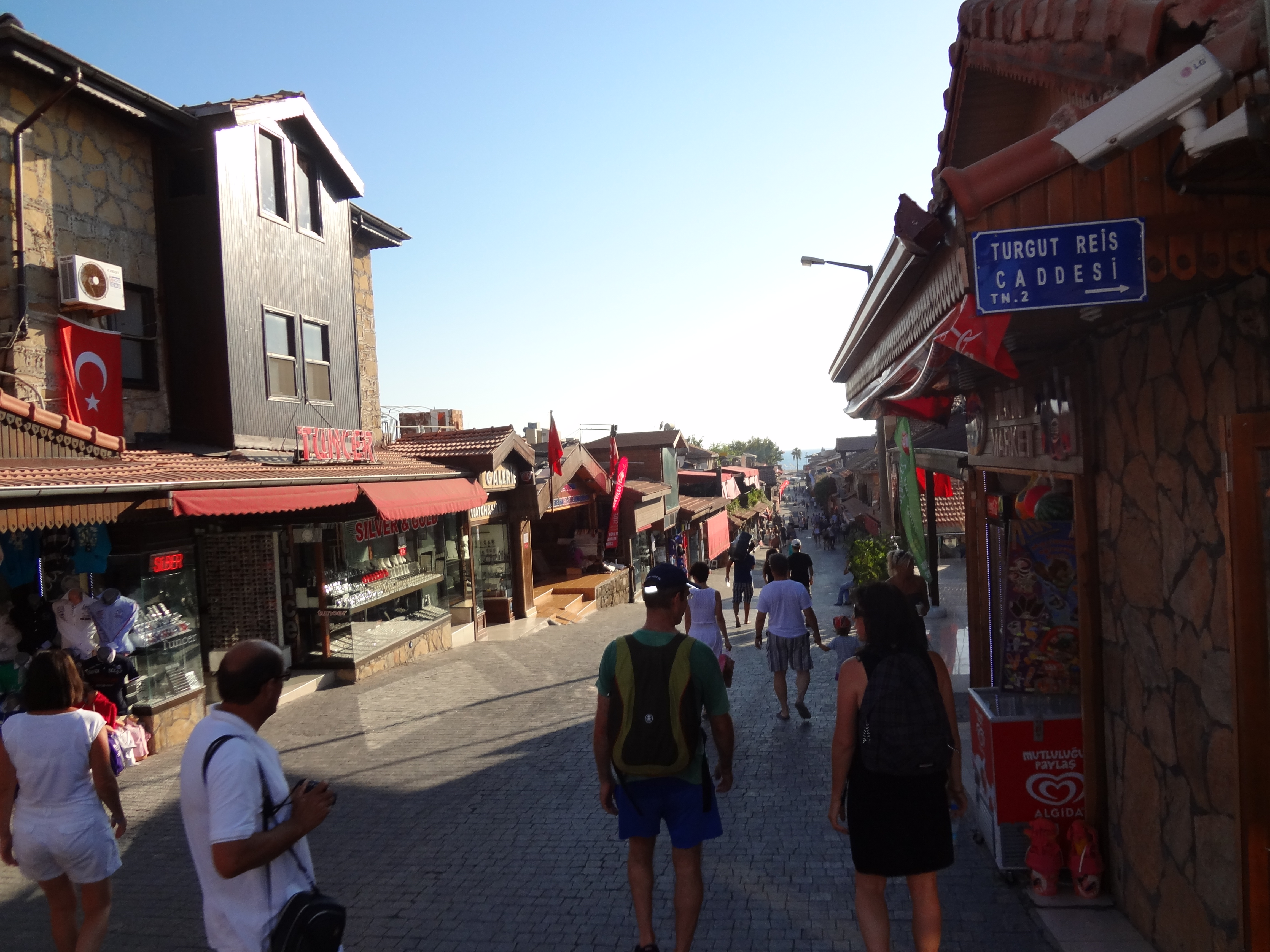 Main road in old parts of Side, road goes to the harbor.